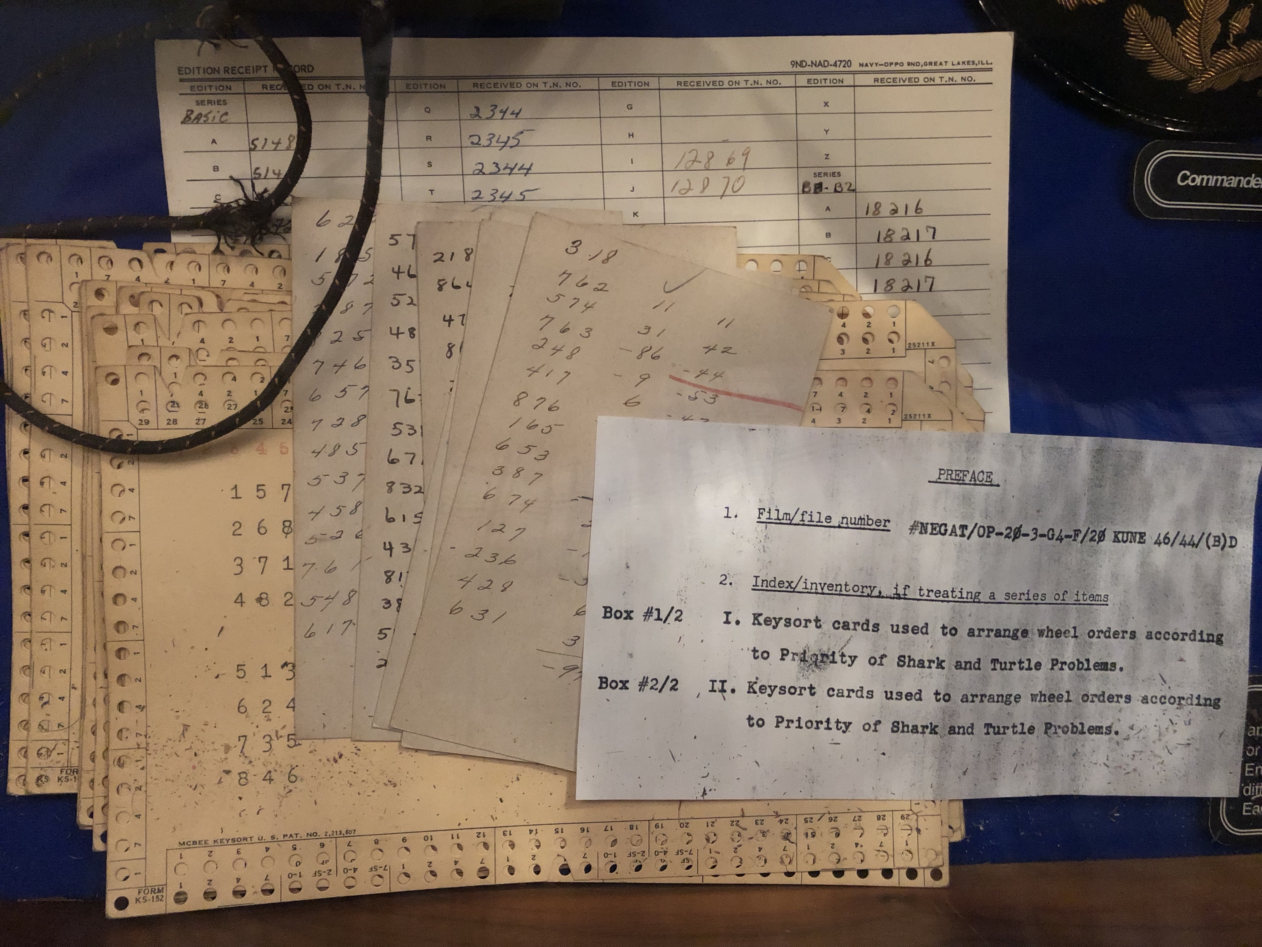 Documents on display at the National Cryptologic Museum in Maryland